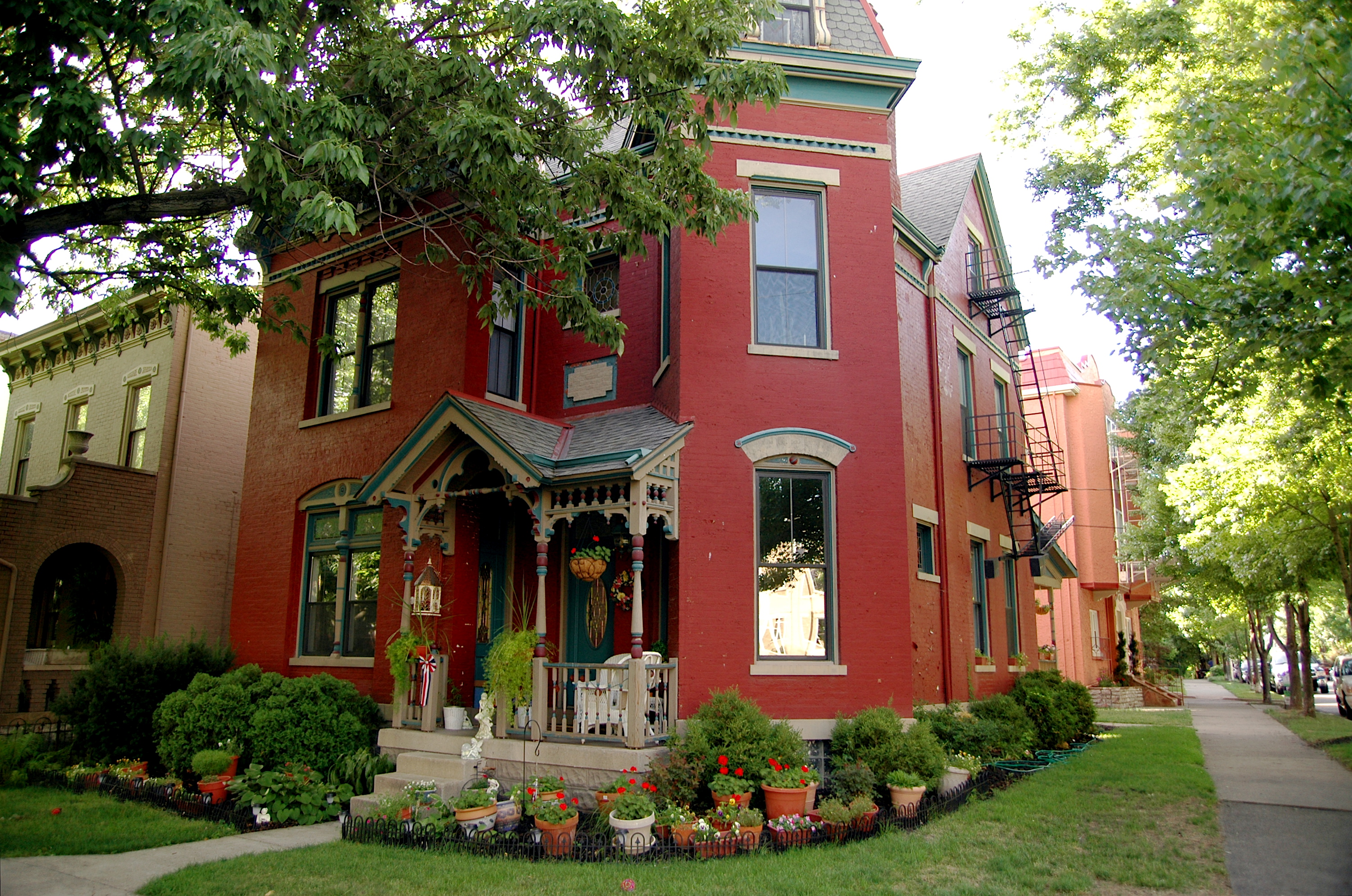 A building in the East Row Historic District of Newport, Kentucky.